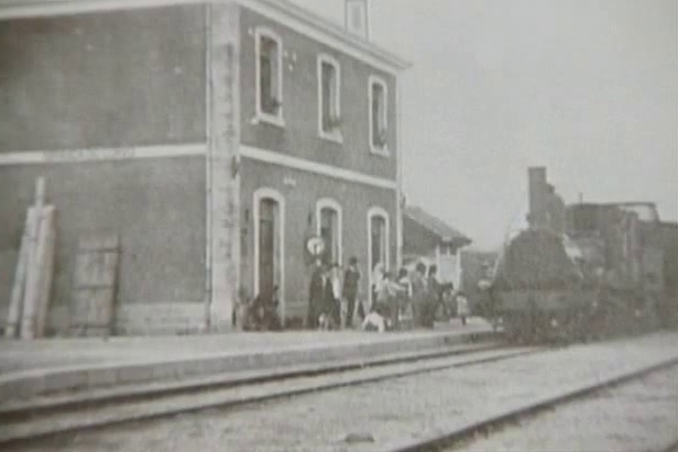 Photograph of the Miranda do Corvo Railway Station, in Portugal, in the first years. This image was shown in the "Miranda é uma lição" programme, made in 2006 as parte of the "Alma e a Gente" series by the Videofono company, for the RTP - Rádio Televisão Portuguesa